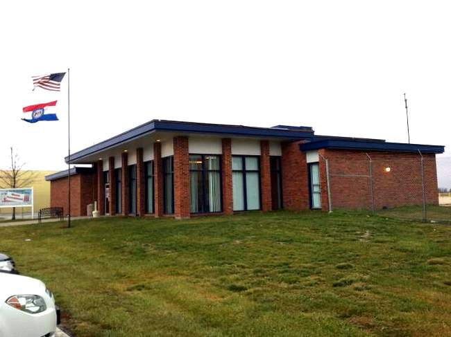 Terminal and base operations building at Kirksville Regional Airport, located near Kirksville, Missouri. Constructed in the early 1970s, the building is named "Clarence Cannon Terminal" in honor of the longtime Missouri Congressman. Photo taken in December, 2012.